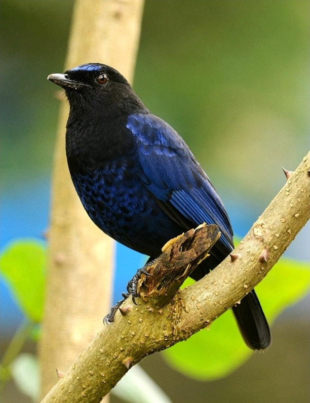 Malabar whistling thrush Myophonus horsfieldii. This image was shot at Meghamalai, TamilNadu, India. This image clearly showcases the intrinsic details of the bird.